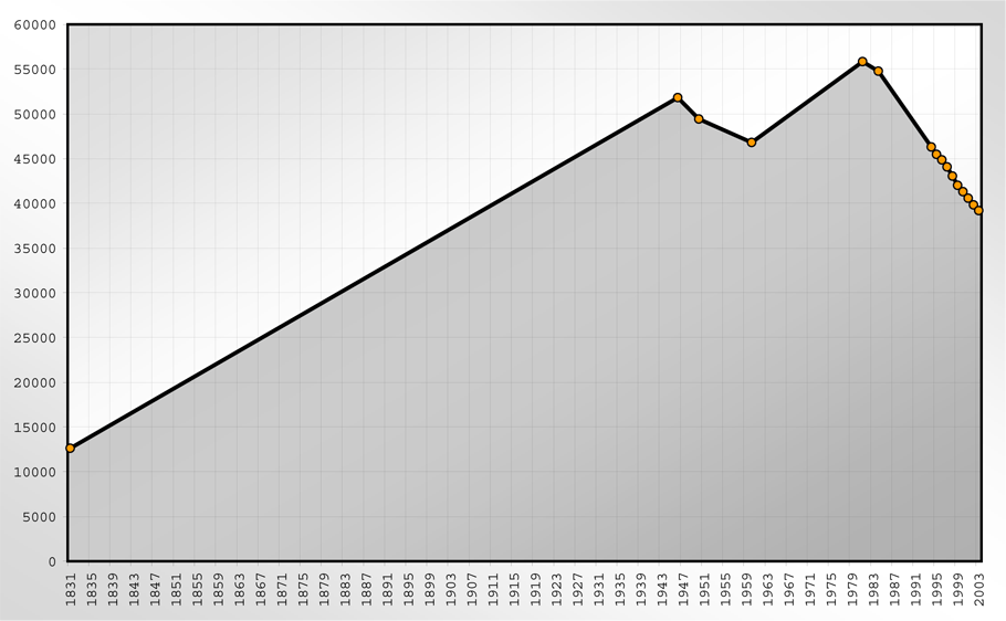 This image shows the population statistics of Altenburg (Germany).